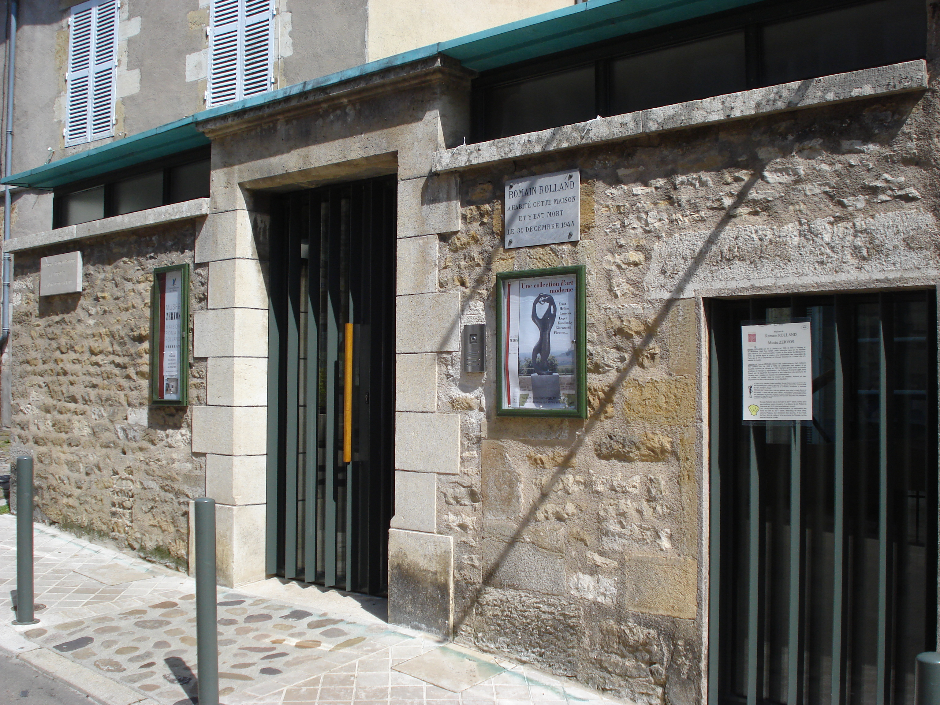 Vézelay, maison de Romain Rolland.